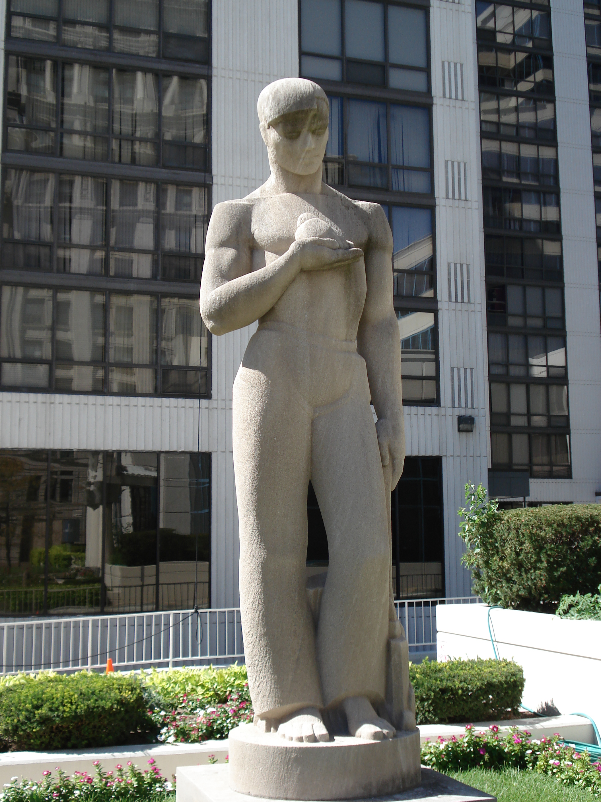 "Peace" of the Peace and Harvest statue pair, in front of the Becker Building at the corner of Main and Jefferson Streets, Peoria, Illinois. Background, left to right: east and west of the Twin Towers.